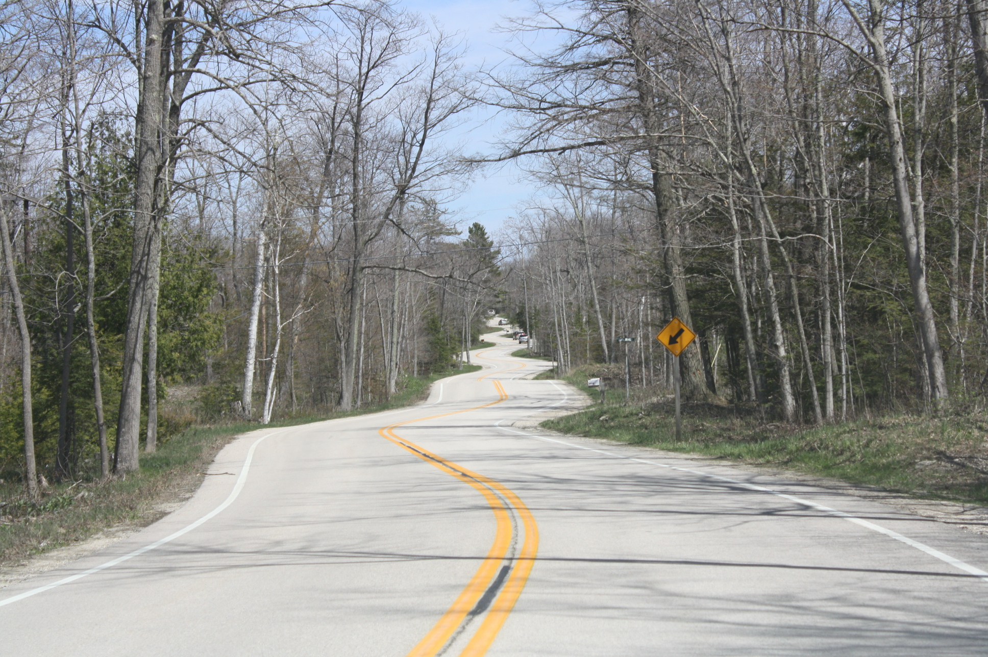 The northernmost portion of Wisconsin Highway 42 which is extremely curvy.